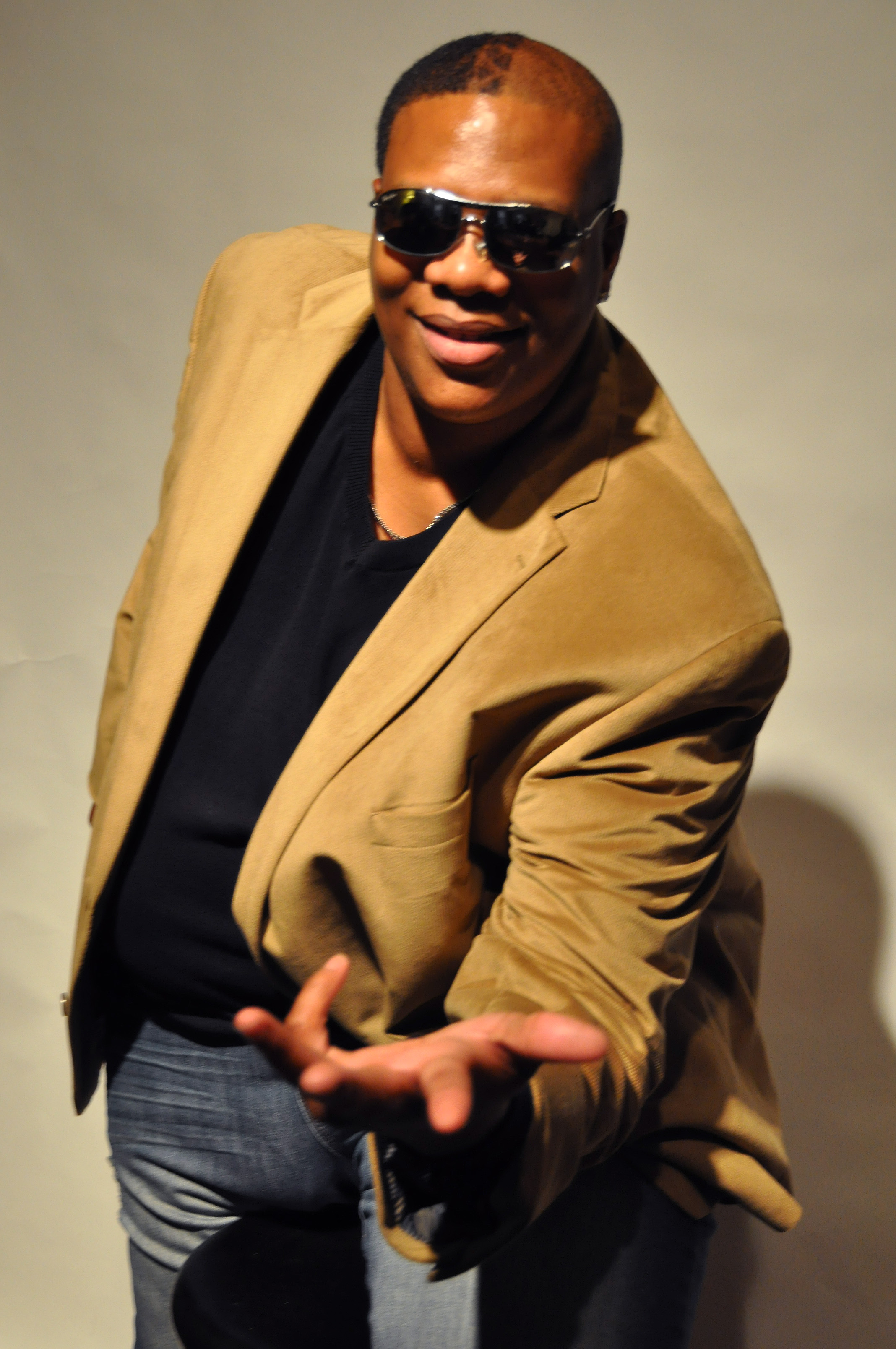 NEW YORK, NY - OCT 10: Singer The Mad Stuntman poses for 'The Return of the Mad Stuntman' album photo shoot on Oct 10, 2014 at celebrity photographer Rob Klein's Studio in New York, New York. (Photo by Rob Klein Photography)